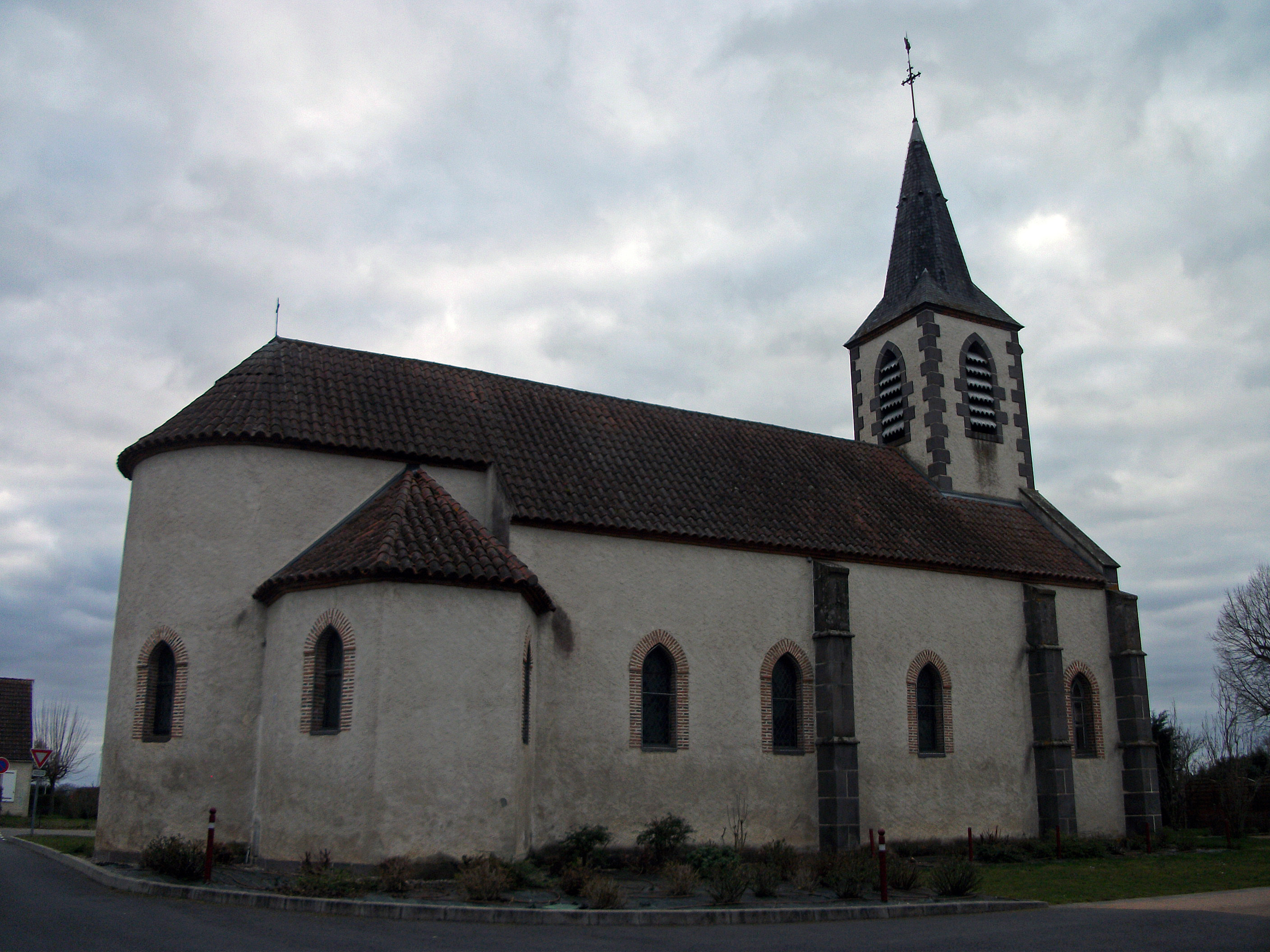 Church of Loriges [10319]